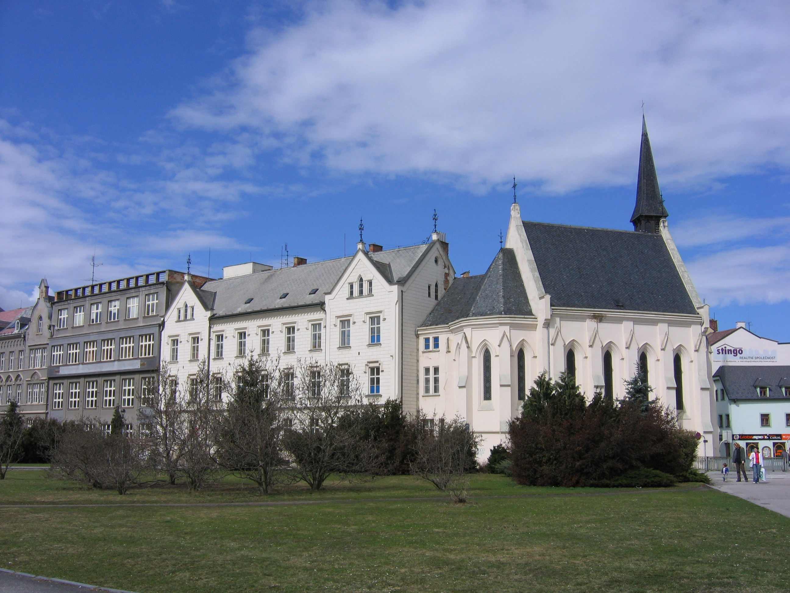 České Budějovice, Czech Repulic: ex-service orphanage (boardinghouse of Bishop Gymnasium today) with former Holy Family Church